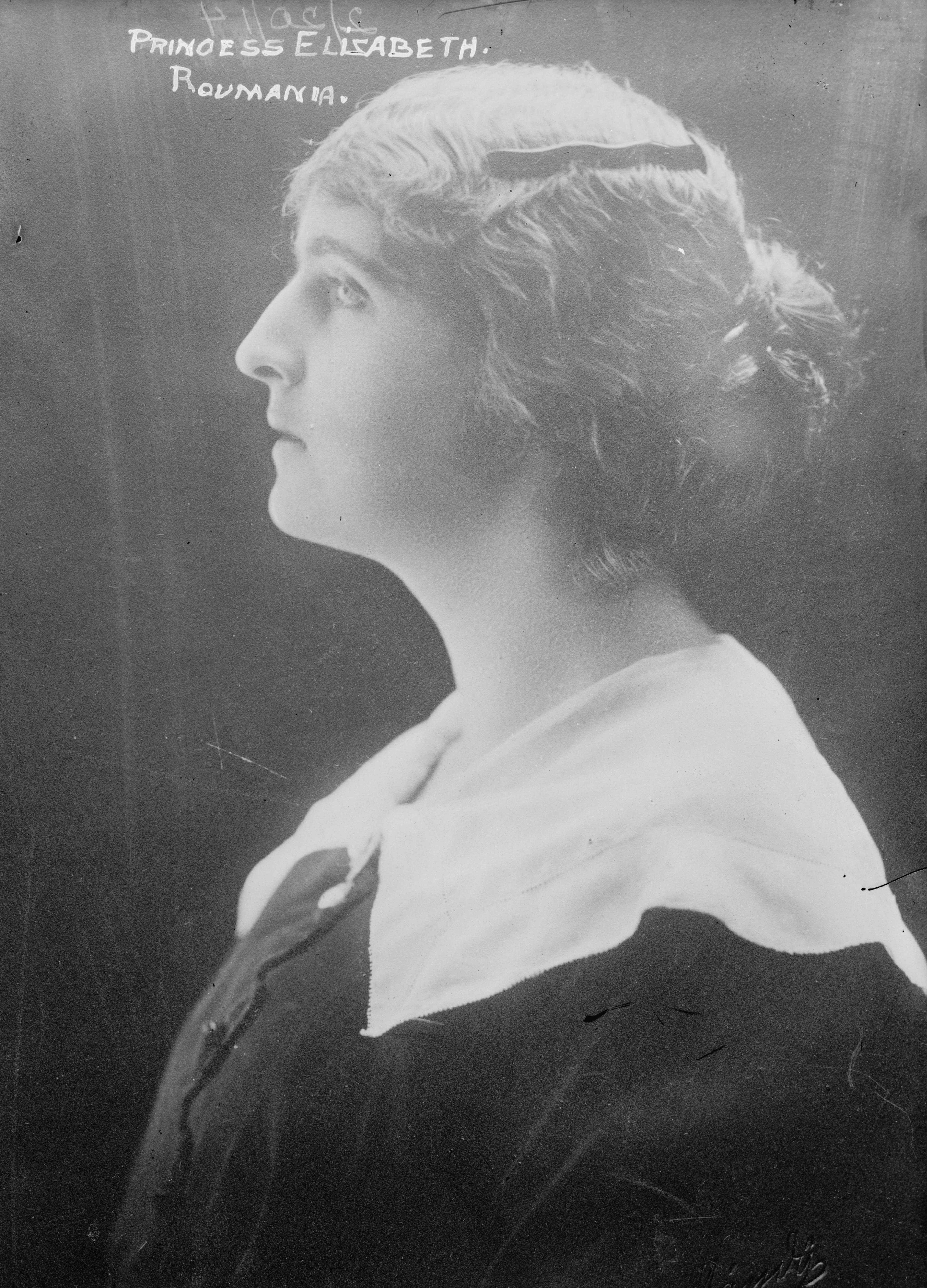 Princess Elisabeth of Romania